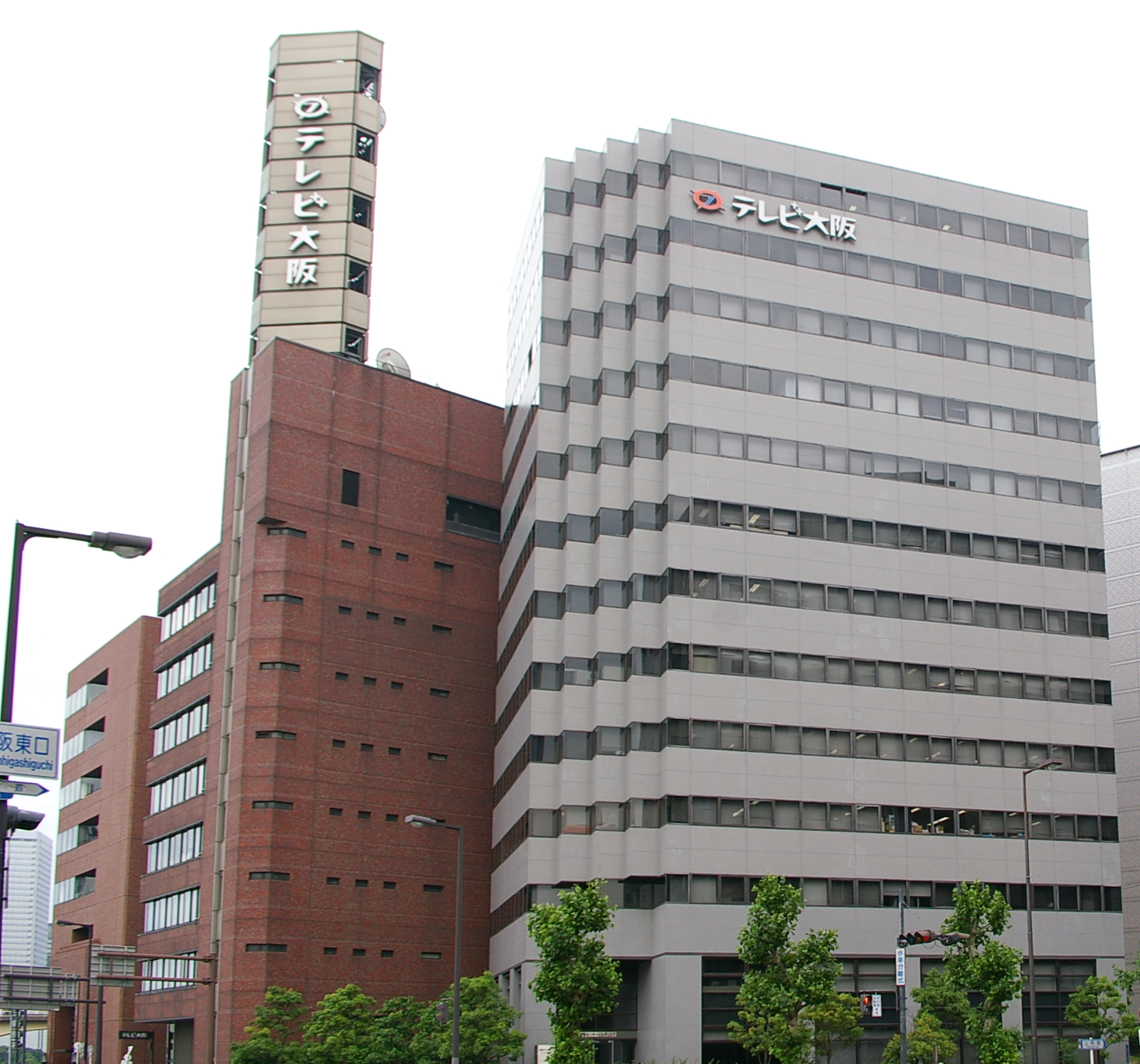 Photograph of the headquarters of Television Osaka in Chuo-ku, Osaka, Osaka Prefecture, Japan.